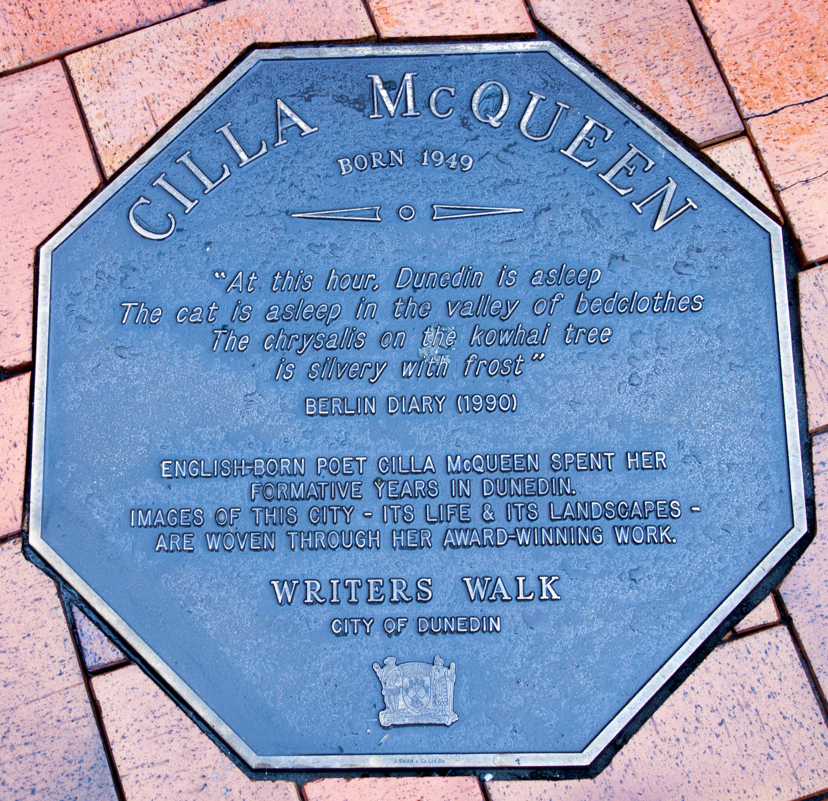 Plaque dedicated to Cilla McQueen in Dunedin, on the Writers' Walk on the Octagonlabel QS:Len,"Plaque dedicated to Cilla McQueen in Dunedin, on the Writers' Walk on the Octagon" label QS:Lhu,"Emléktábla Cilla McQueen tiszteletére Dunedin Octagon terén, az Írók sétányán"